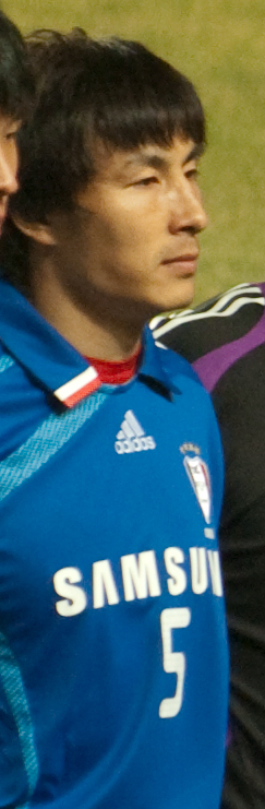 AFC Champions League 2009 Squad of Suwon Samsung Bluewings at 11 Mar 2009 against Kashima Antlers of J-League.